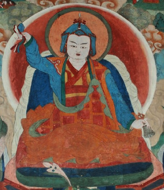 Dorje Lingpa, b.1346 - d.1405, famous Terton of Tibetan Buddhism